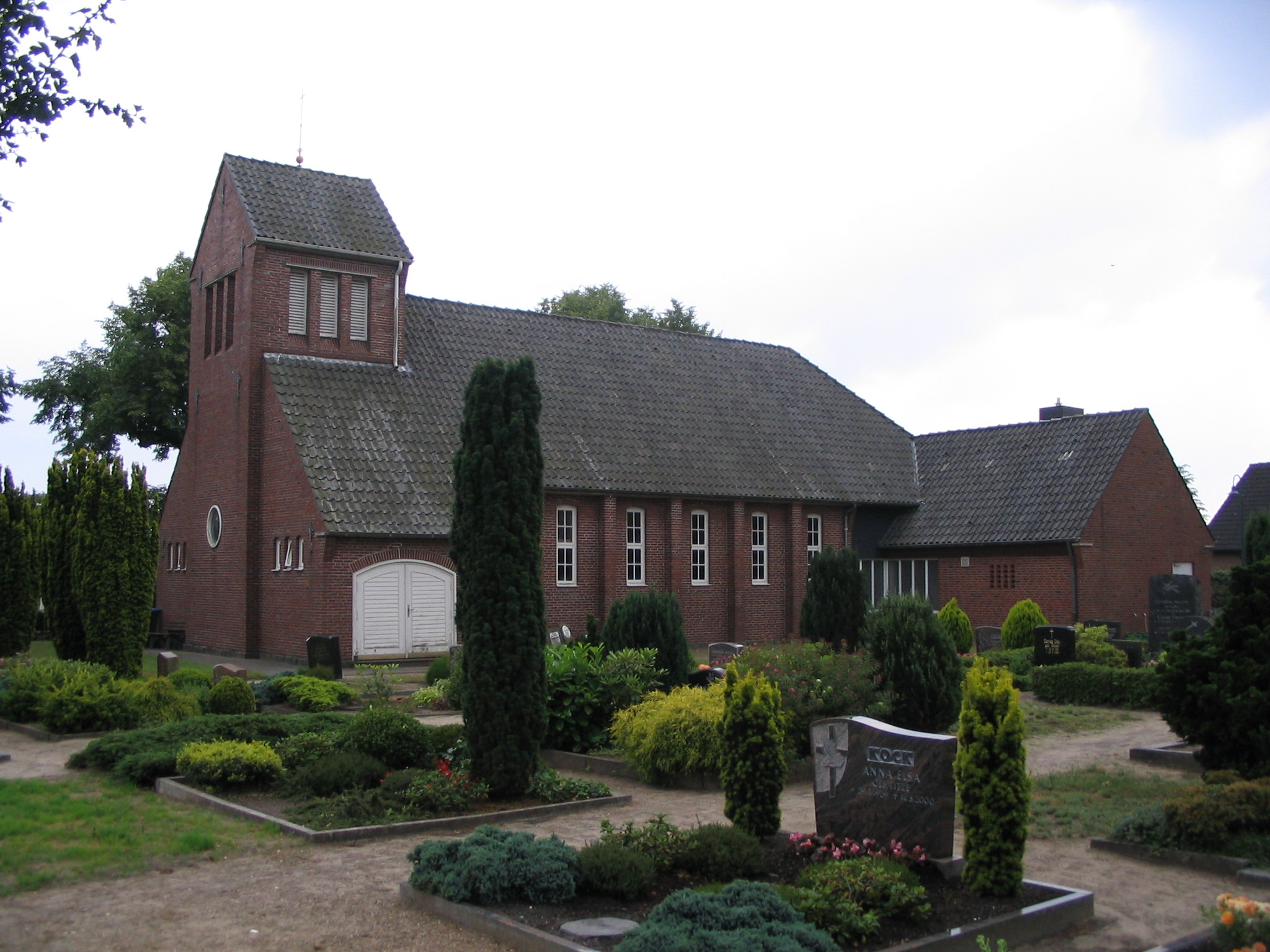 Peter Church in Nübbel